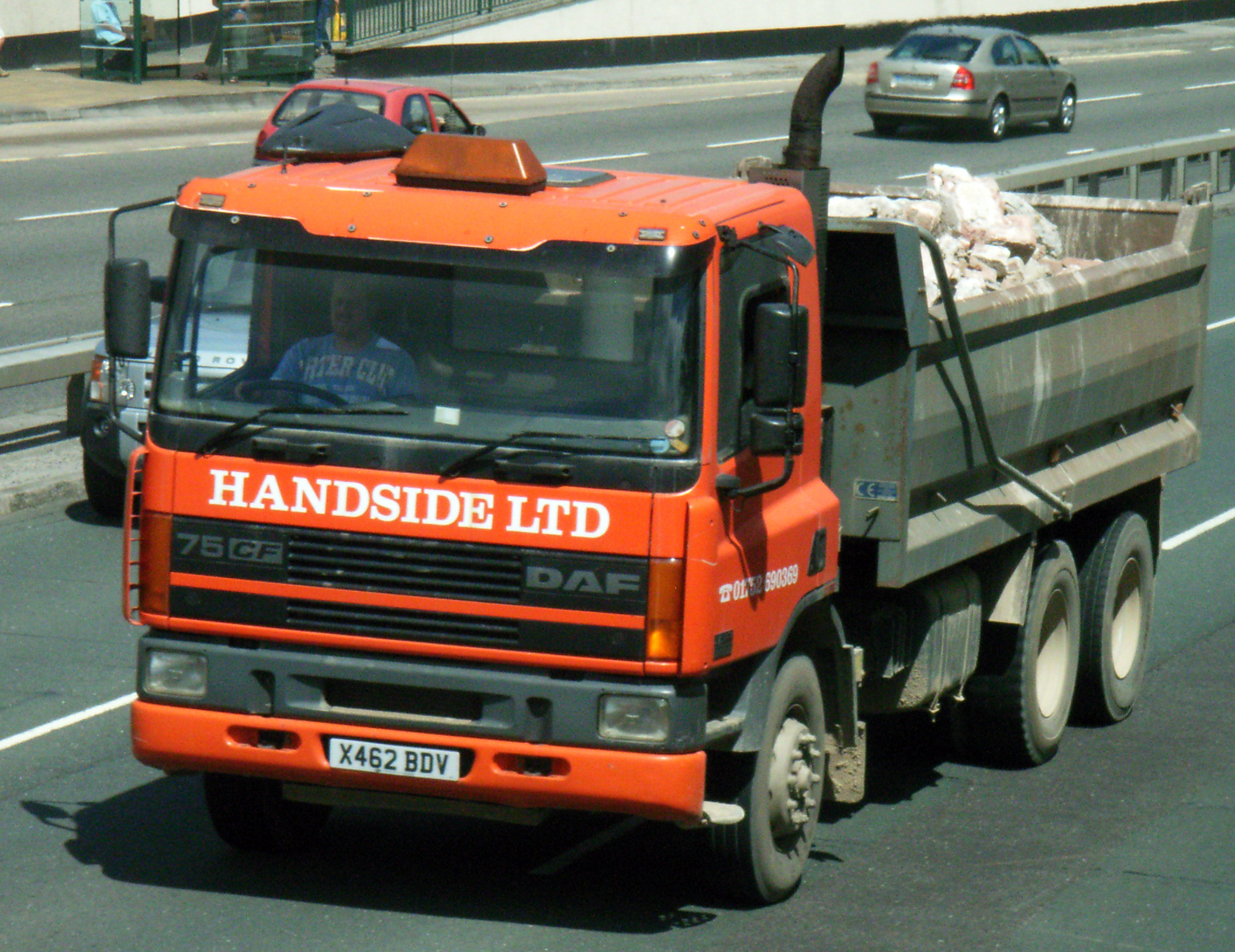 Crownhill Plymouth 22 July 2008